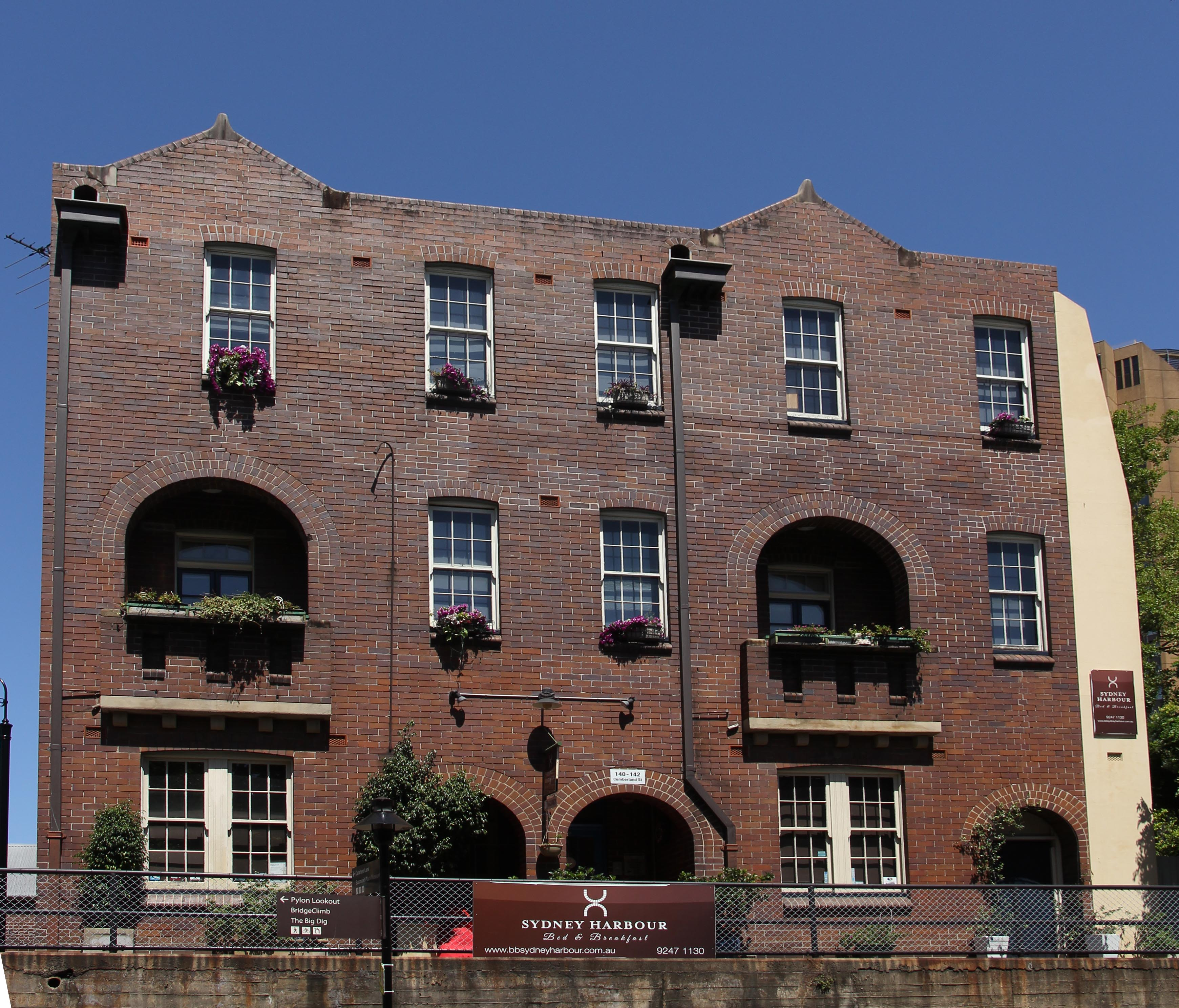 140-142 Cumberland Street in the Long's Lane Precinct, in The Rocks, in the City of Sydney, New South Wales, Australia. Listed on the New South Wales State Heritage Register.